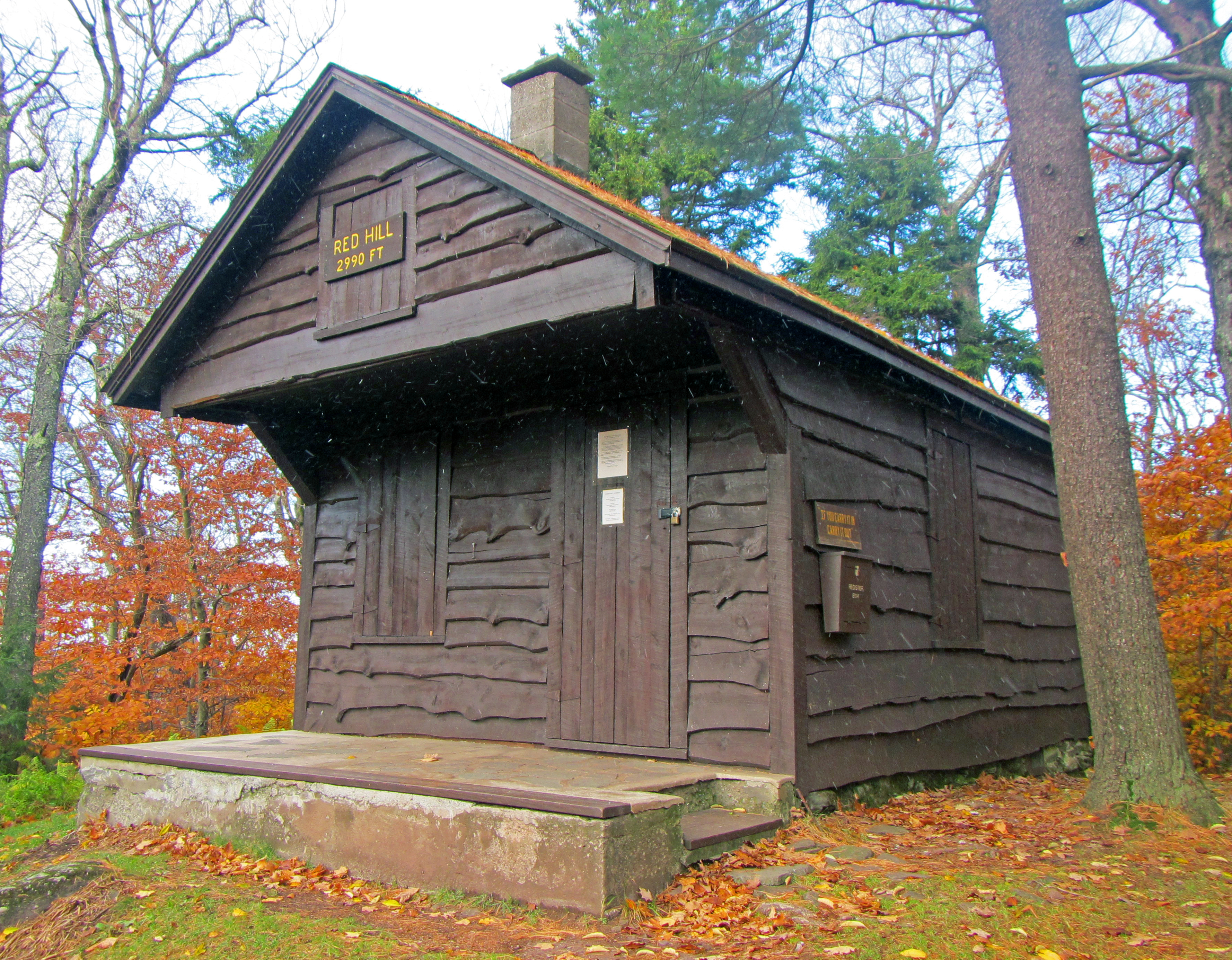 Ranger cabin at Red Hill Fire Observation Station in Denning, NY, USA